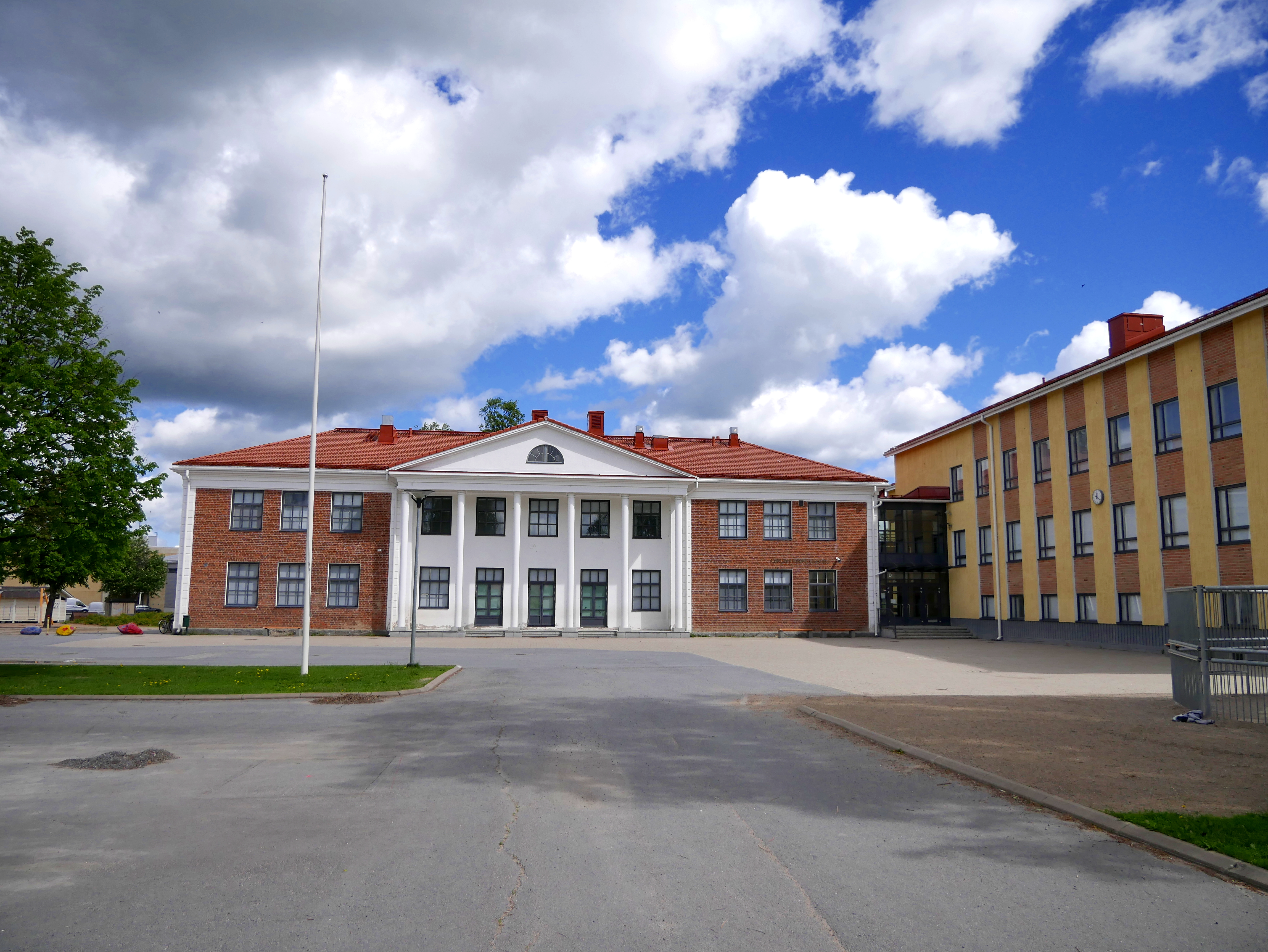 School in Lapua, Finland.